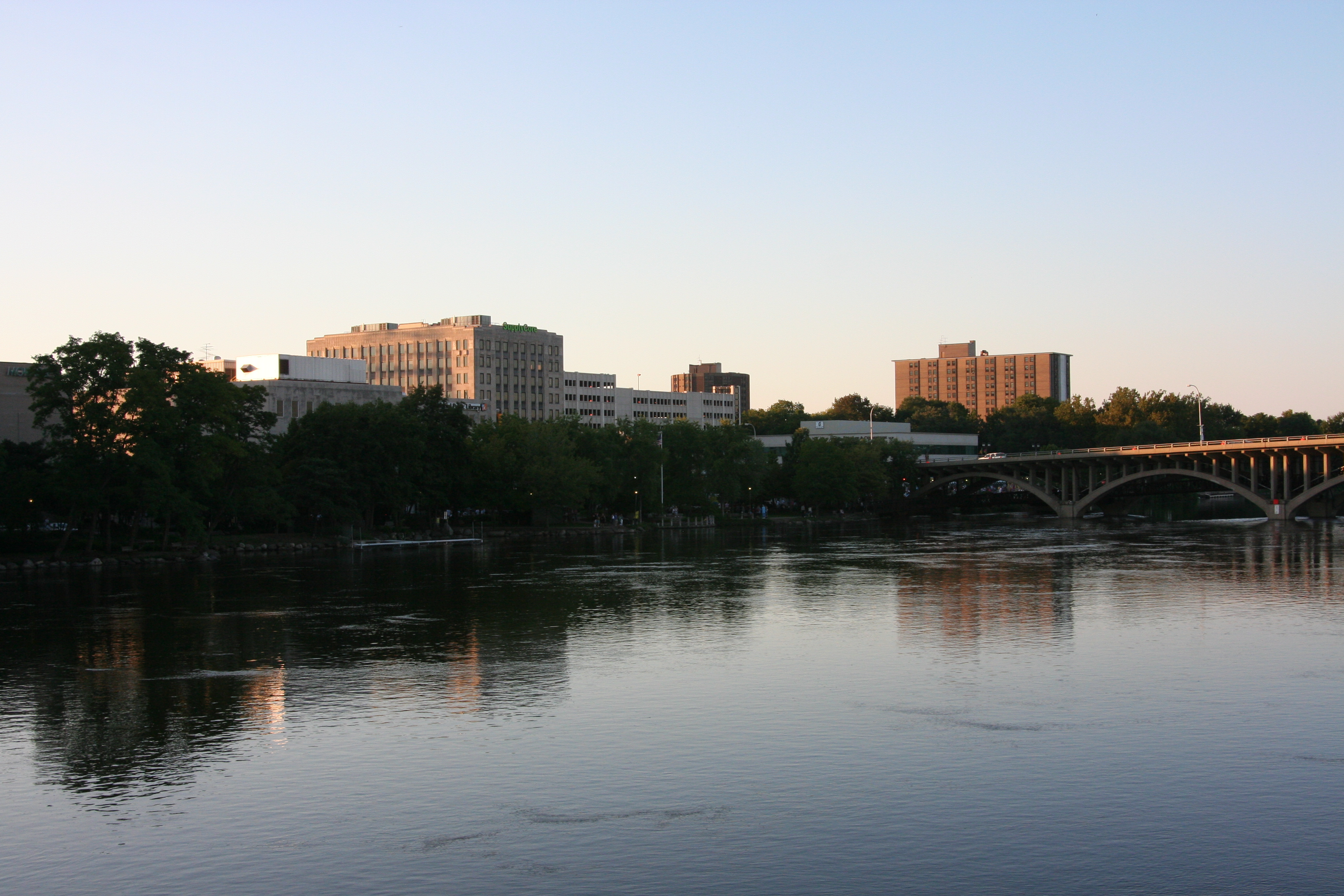 Shot of downtown Rockford, Illinois, USA with the Rock River.